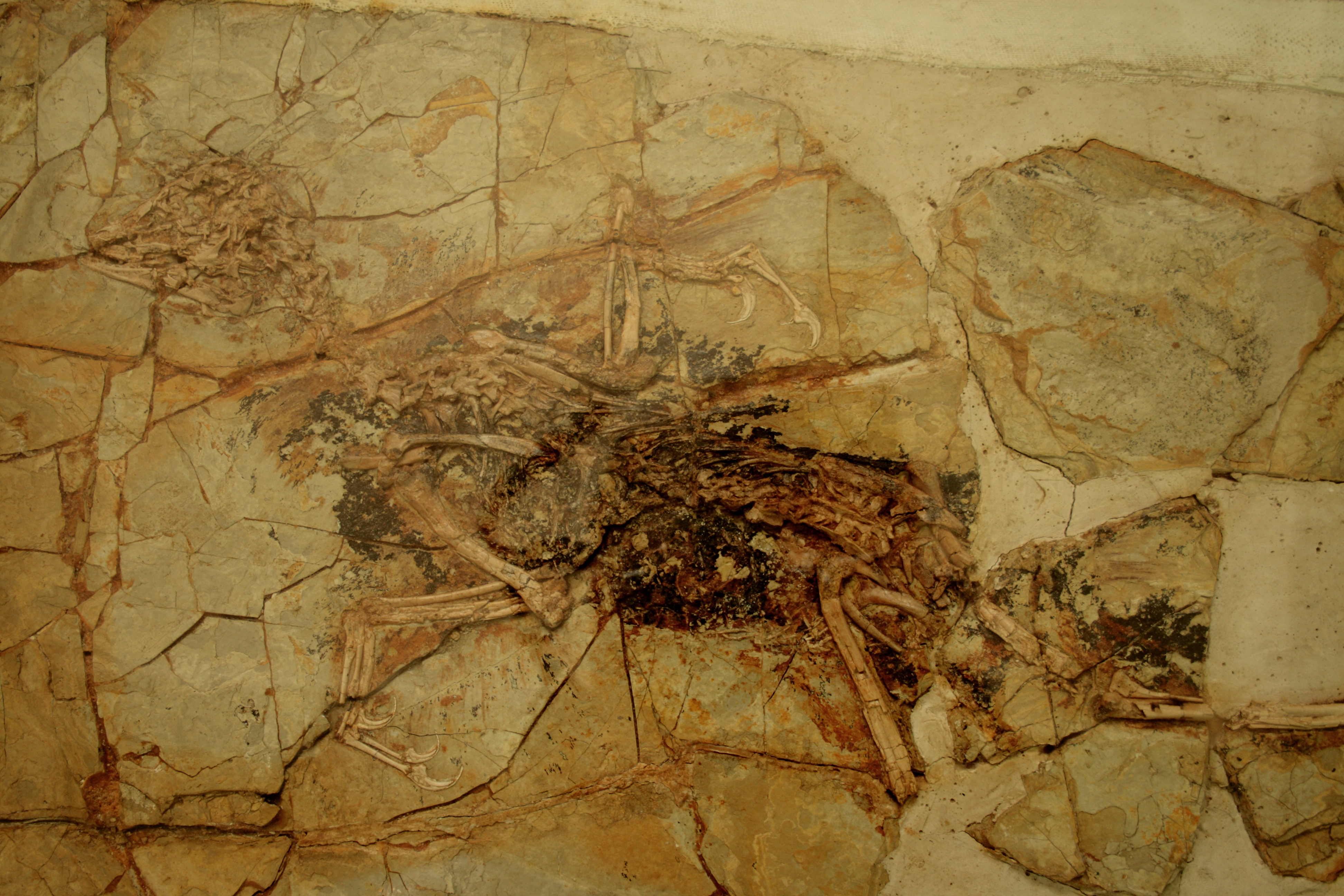 This fossil is the reason I ended up at the museum. It was the subject of a paper that redrew the phylogenic tree of birds and dinosaurs, to place Archaeopteryx on the dinosaur branch rather than the birds. I noticed that the fossil is at a museum in an area of China I was going to visit.